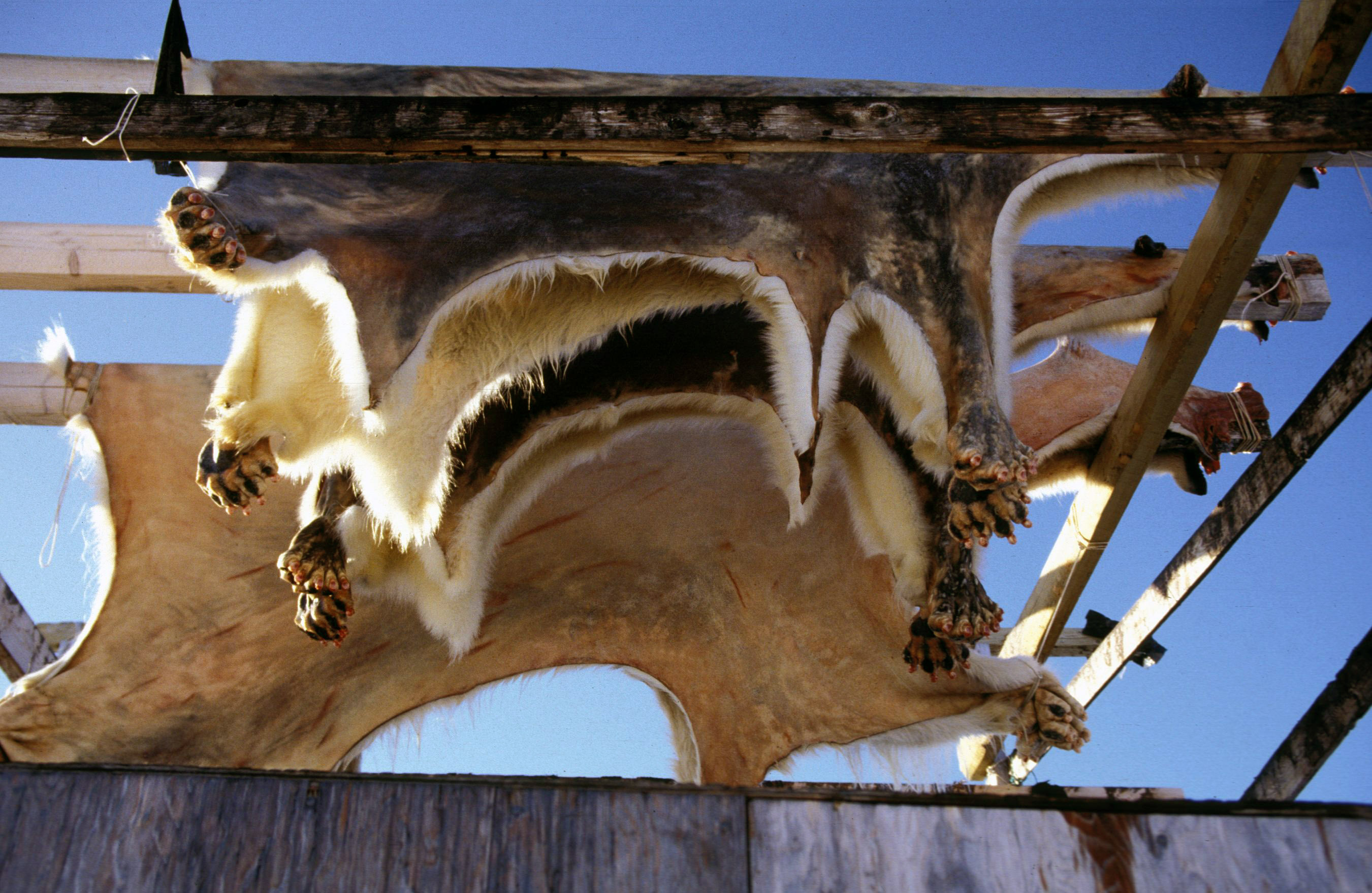 Skin of polar bears, Ittoqqortoormiit (Scoresby Sund), Greenland